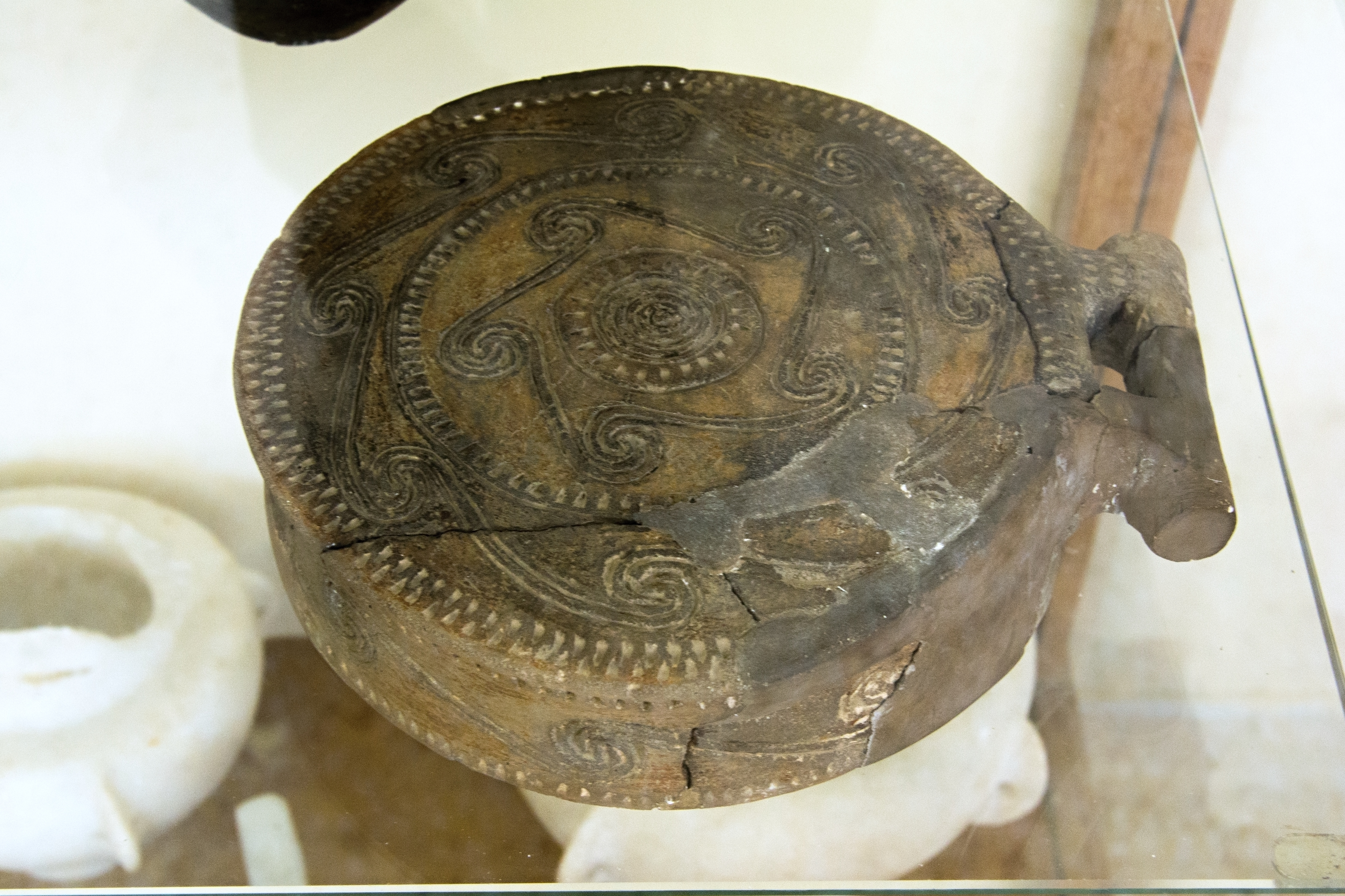 Clay Cycladic "frying-pan", "not the female" type. Early cycladic II period, 2800-2700 BC, Kampos Phase. Archaeological Museum of Paros.